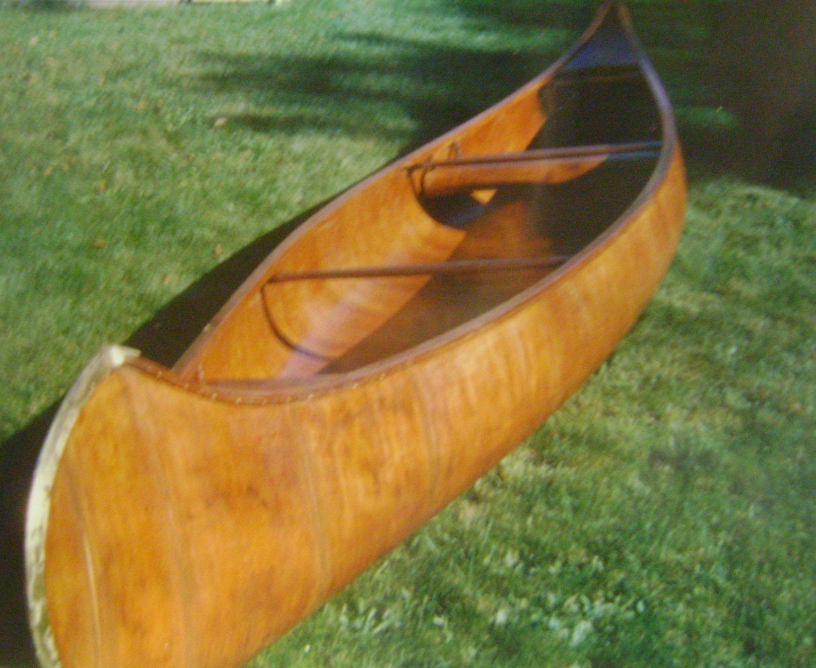 Haskell Canoe at White Pine Village museum